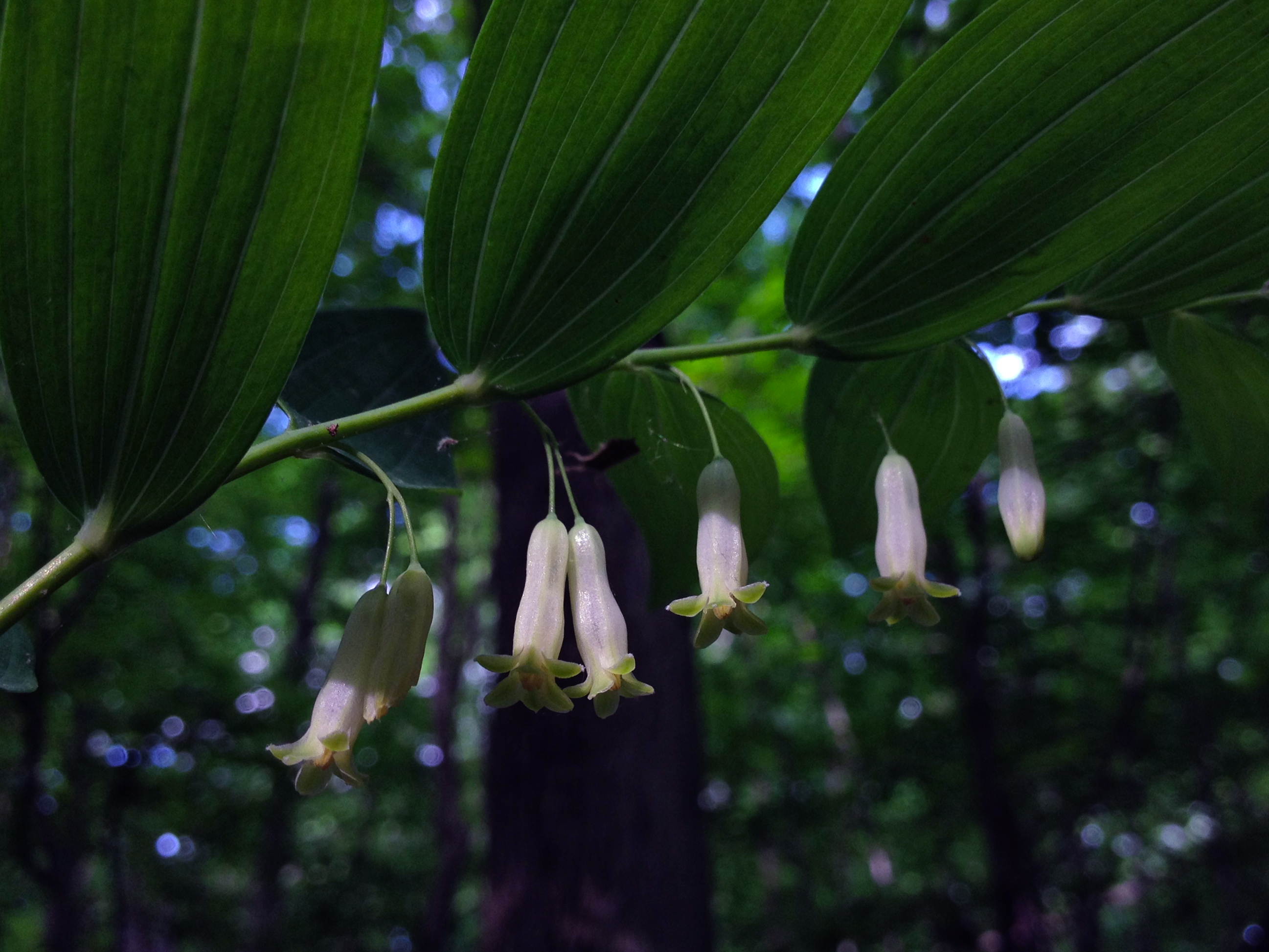 Photo of Polygonatum biflorum in flower. This is a native plant growing wild in Fairfax county Virginia, USA. This species is a member of the Asparagaceae family.